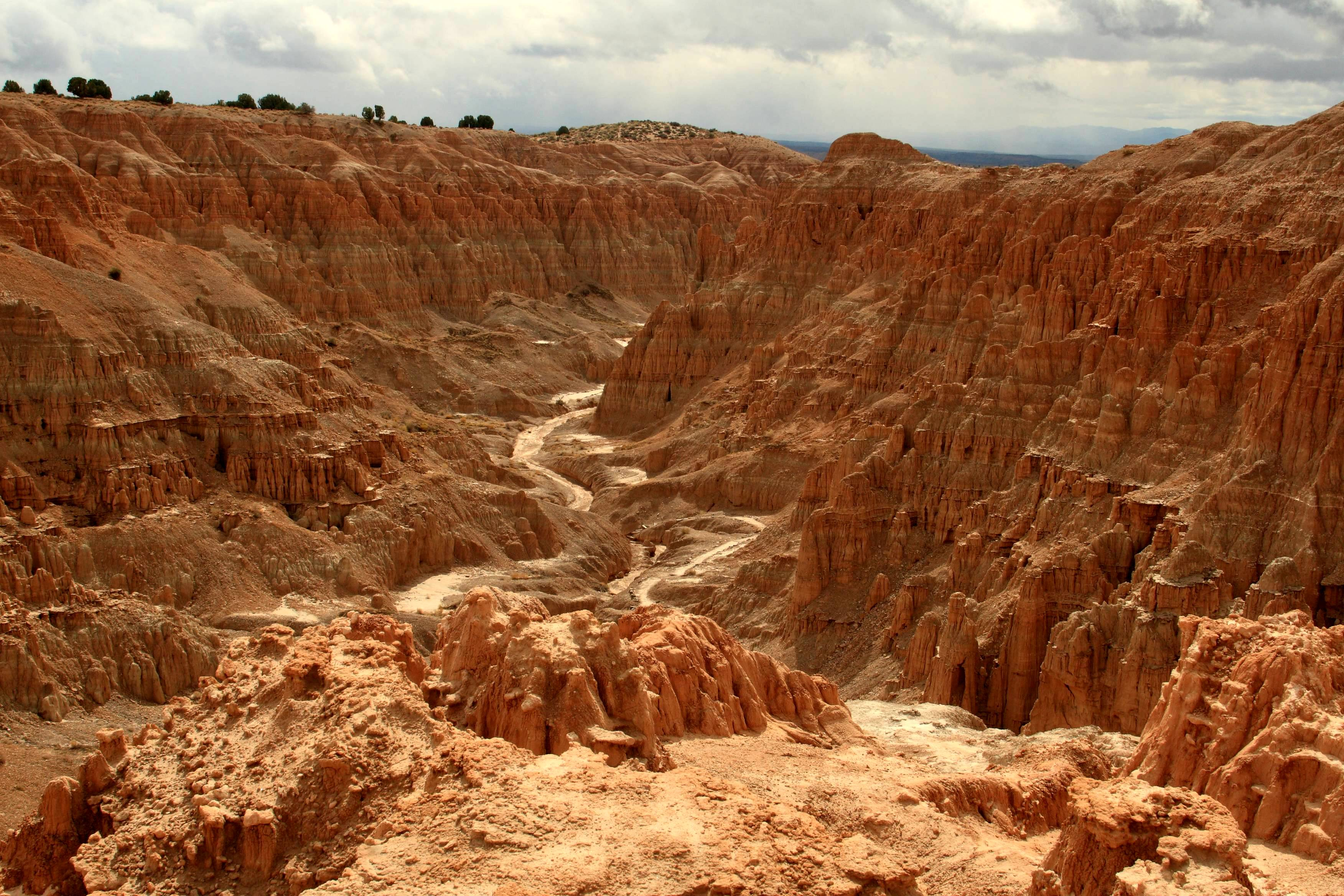 Cathedral Gorge State Park — about 80 miles south of Great Basin National Park in eastern Nevada and 80 miles west of Cedar City, Utah. Cathedral Gorge was formed by lake that dried up many years ago and wind and rain carved out the canyon. It is a little out of the way but well worth a detour. I took this photo on a snowy, cold day in October 2008.